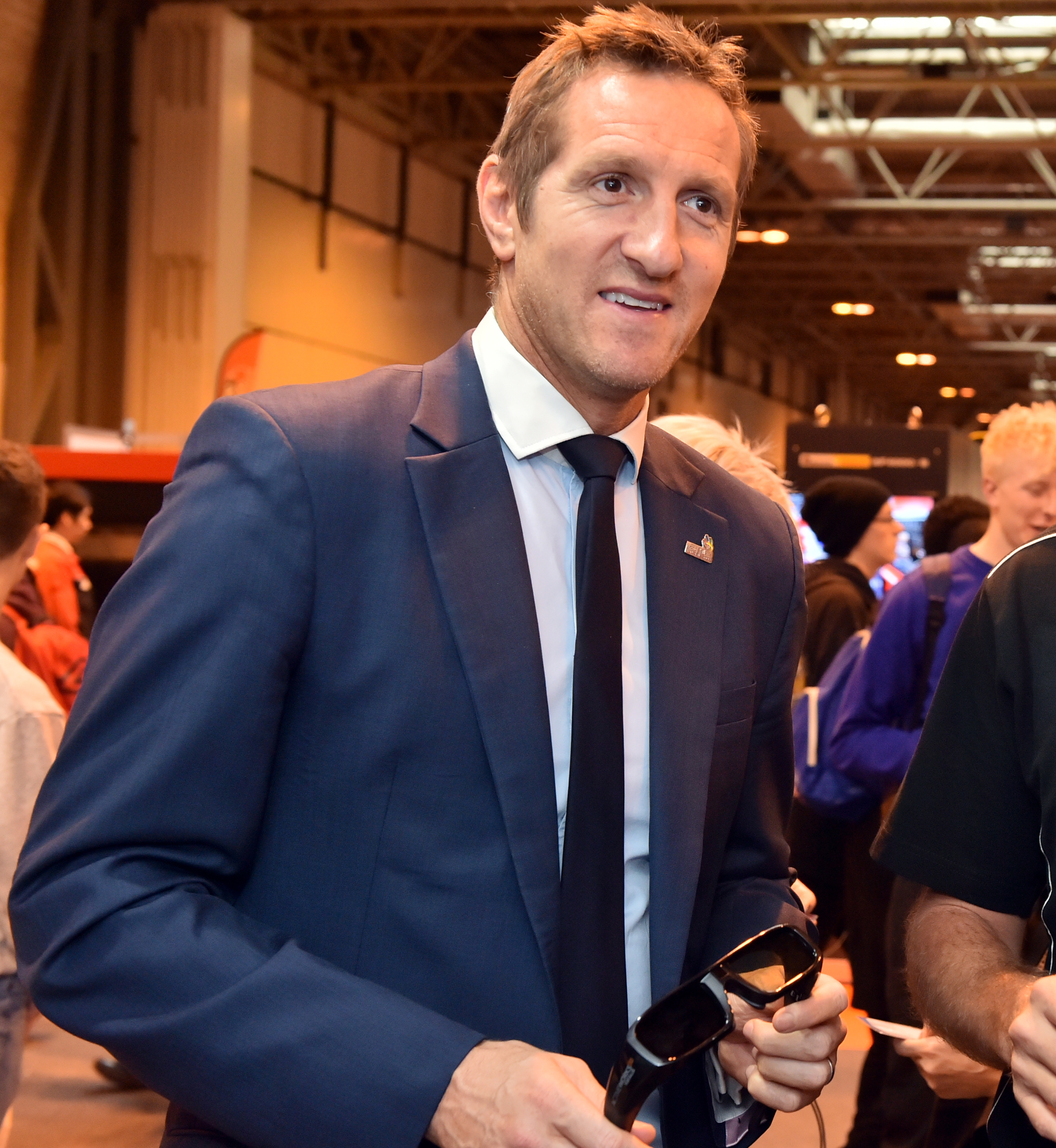 19.11.15 - Birmingham. Ex-England rugby player Will Greenwood speaking with Tim Goodwin from BAE Systems during his visit to the Skills Show 2015, held at the NEC, Birmingham. Photo: Professional Images/@ProfImages